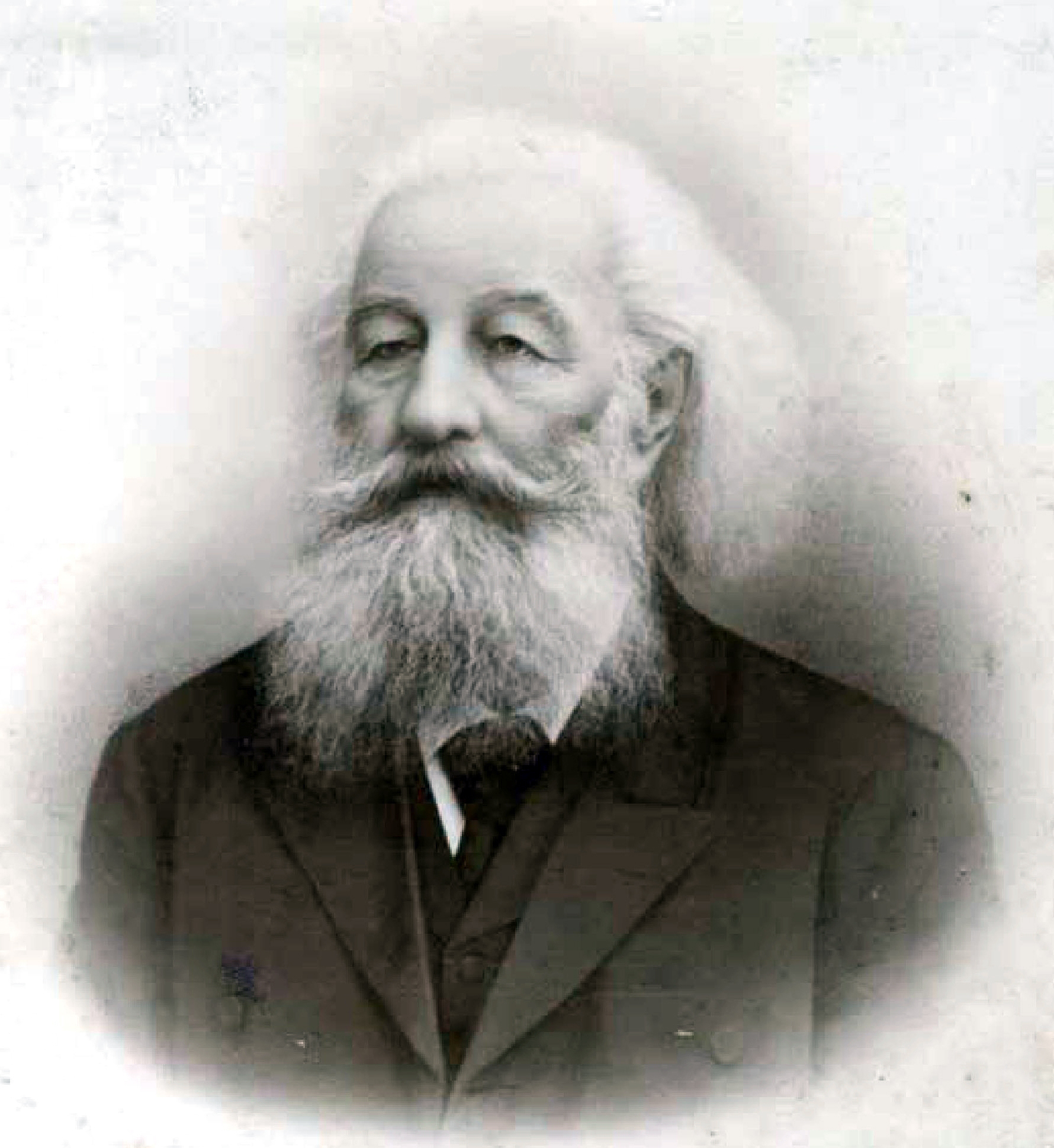 Illustration from Brockhaus and Efron Encyclopedic Dictionary (1890—1907)